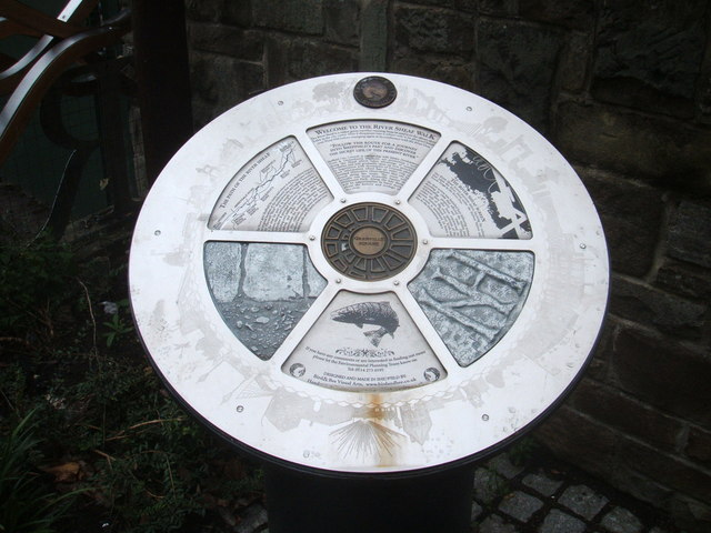 River Sheaf Walk, plaque, Sheffield The walk starts at the junction of Queens Road and St Mary's Road. Like so many city rivers the course of this is sometime hard to follow, as it disappears under buildings